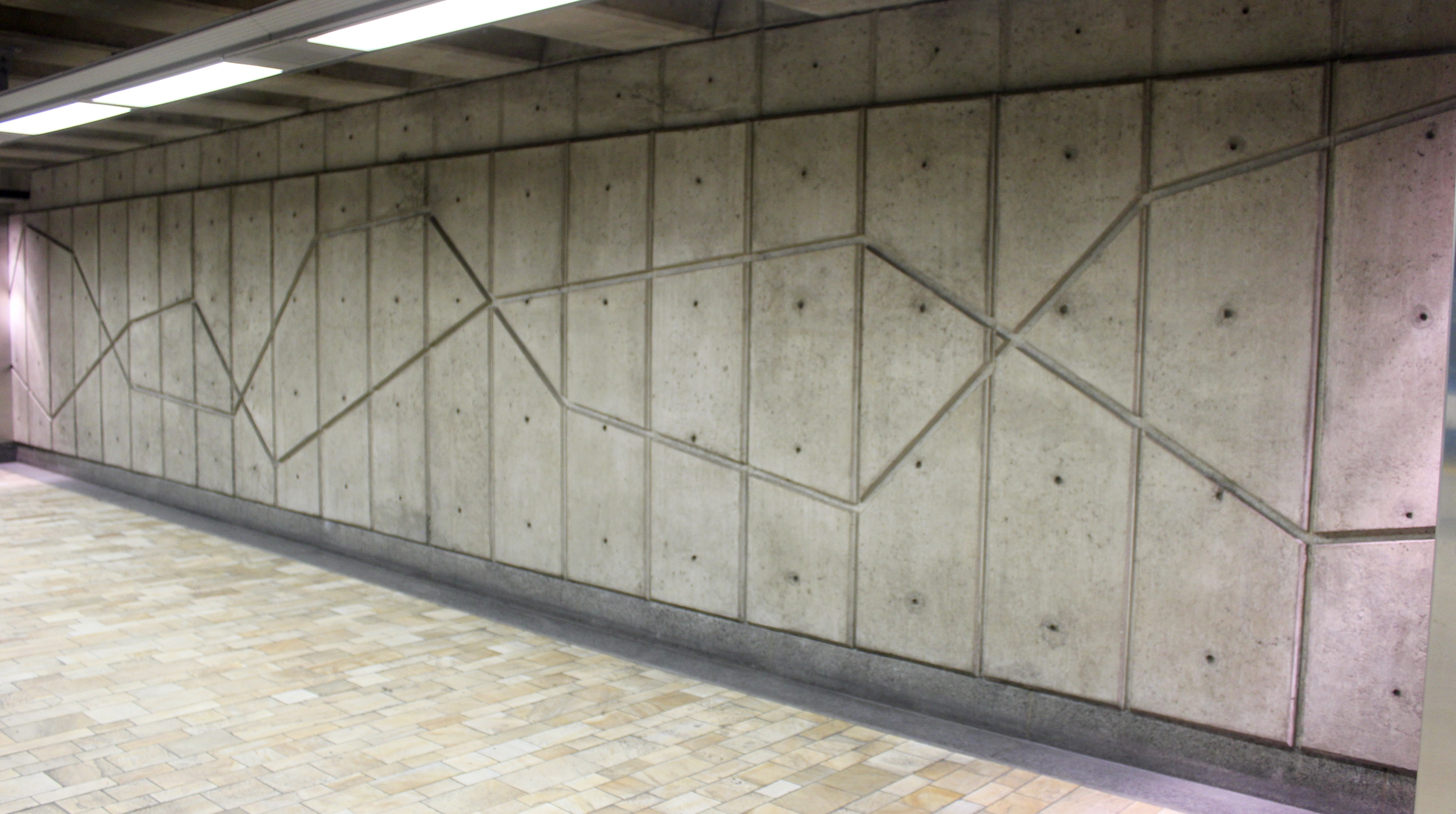 Concrete wall (1967) from Jean Dumontier.